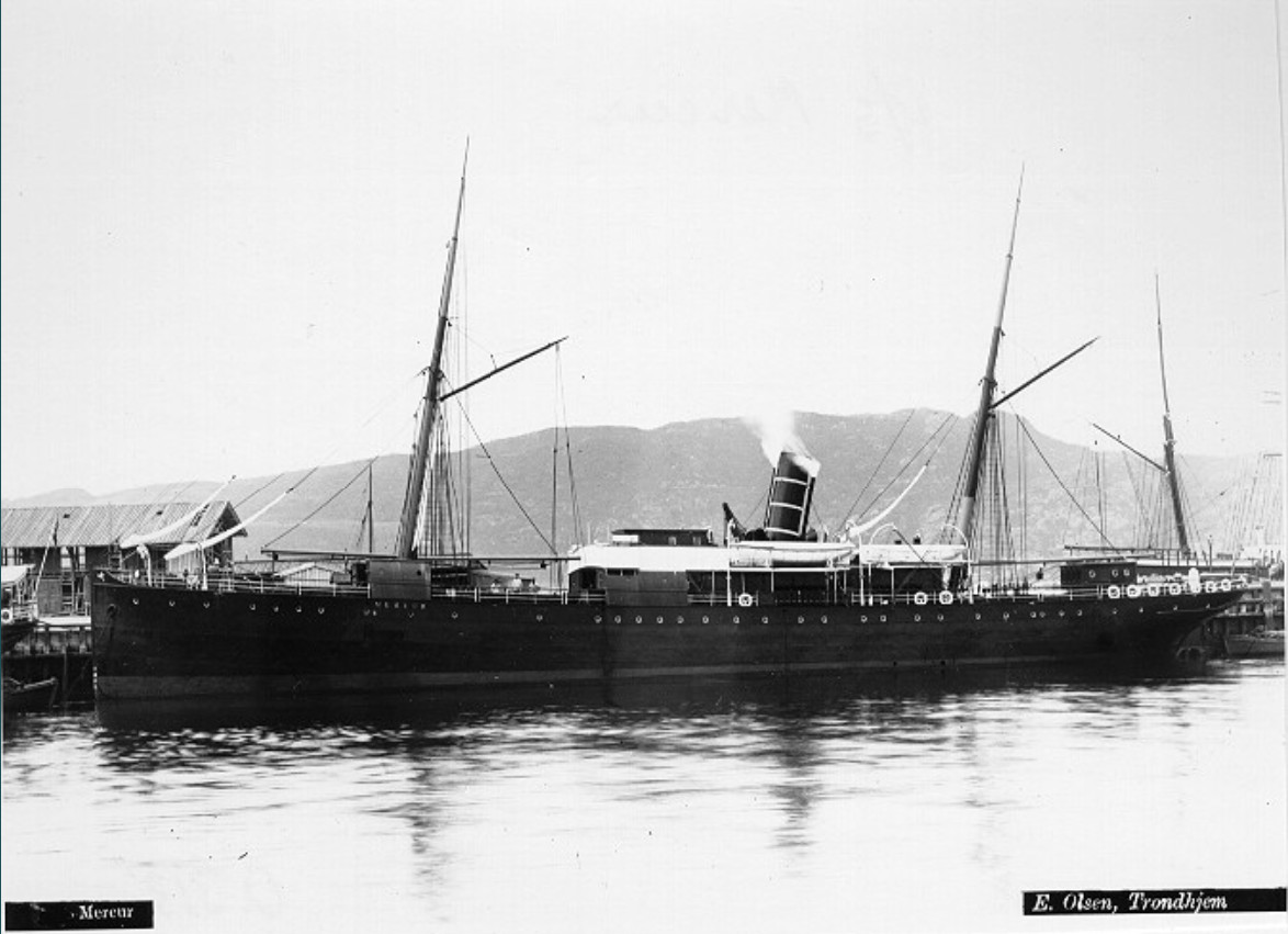 Norwegian steam ship DS Mercur, built in 1883 by Motala Verkstad at Lindholmens varv.